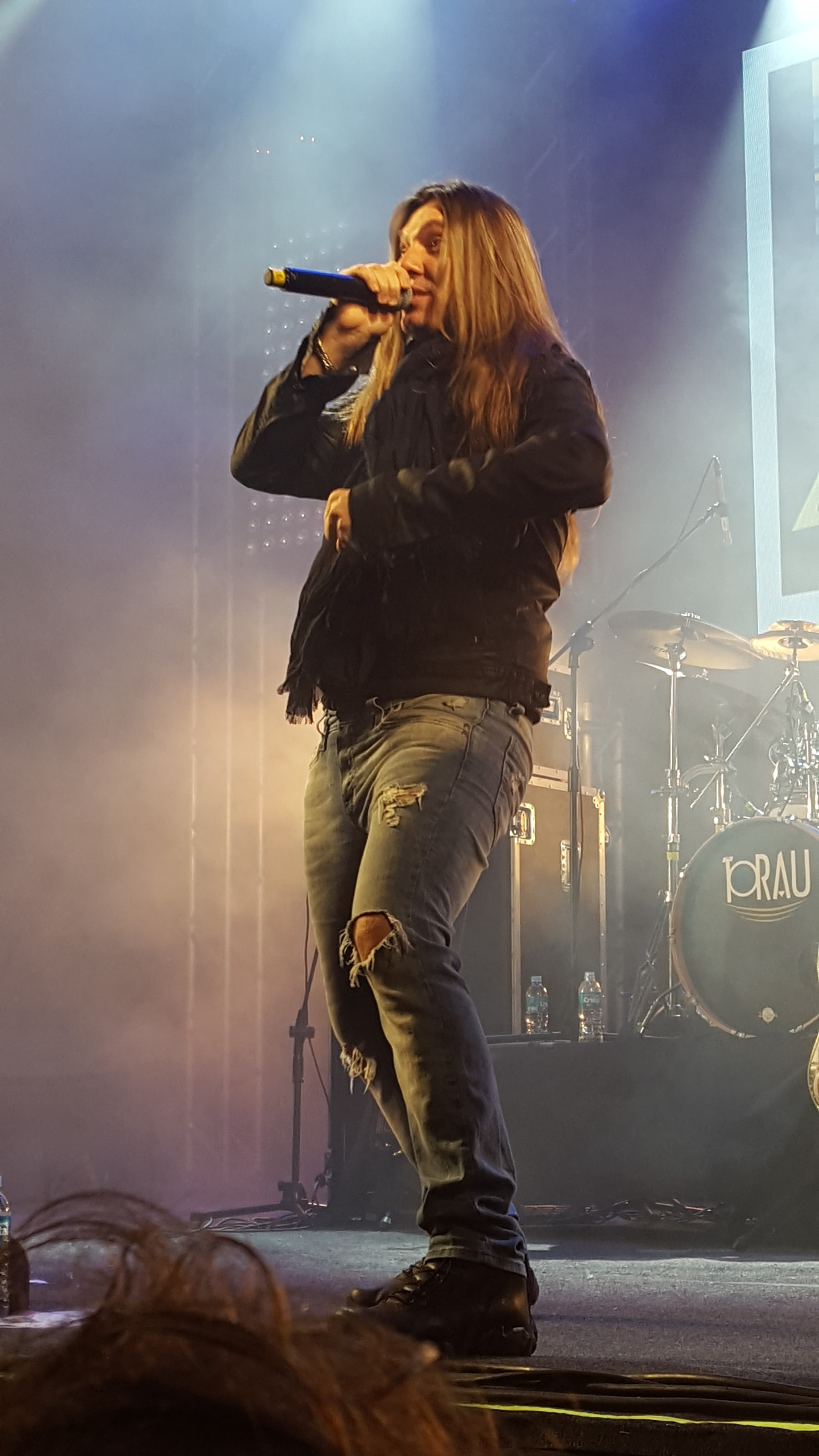 Edu Falaschi performing at Anime Friends 2016